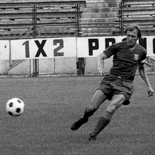 Iosif Vigu playing for Steaua Bucharest